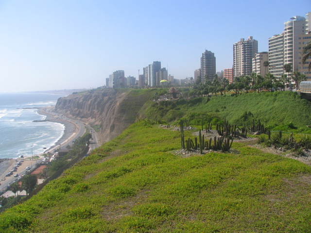 Skyline of Lima from the costa verde